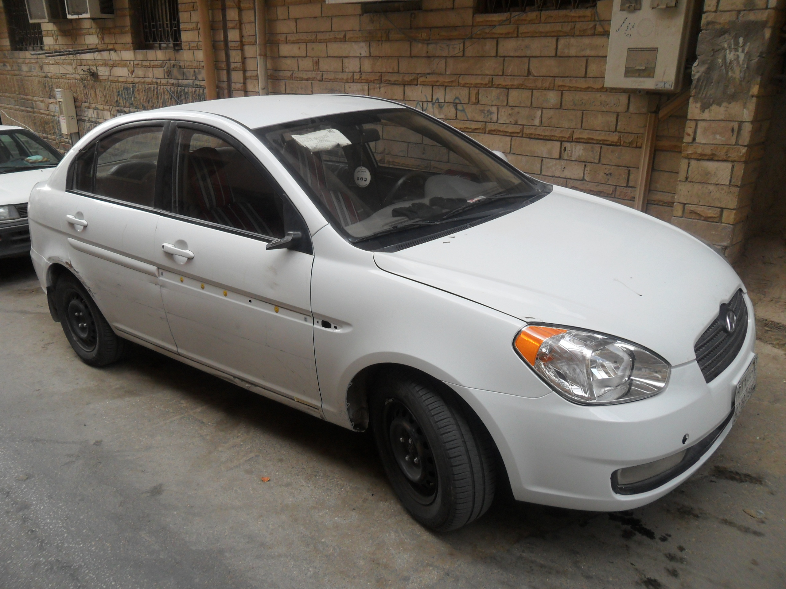 Hyundai Accent Model 2010 in Riyadh City, Saudi Arabia